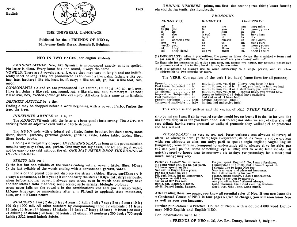 A Neo overview in two pages, created from a promotional leaflet.